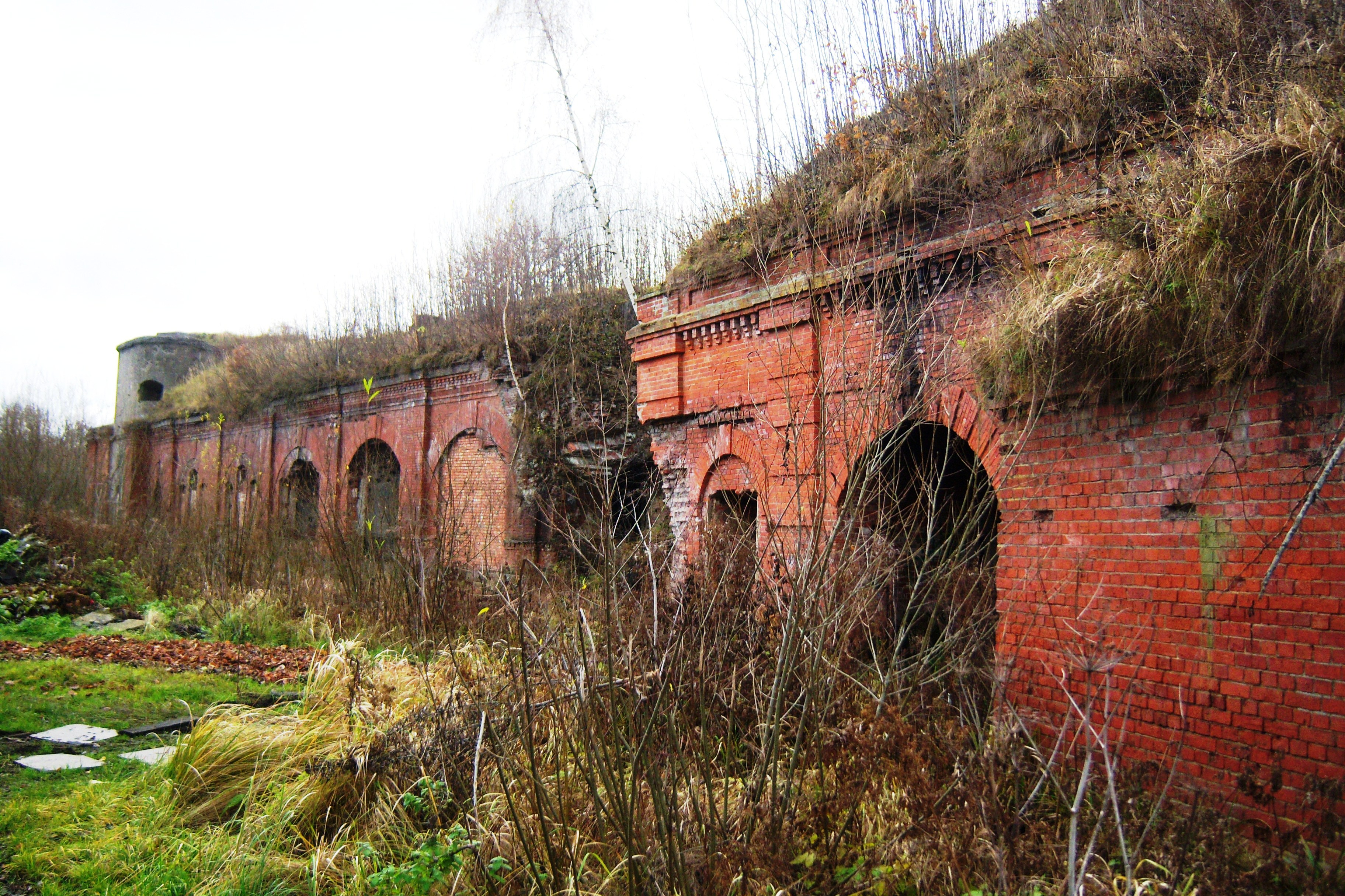 2-nd Fort of Kaunas Fortress in Kaunas, Lithuania